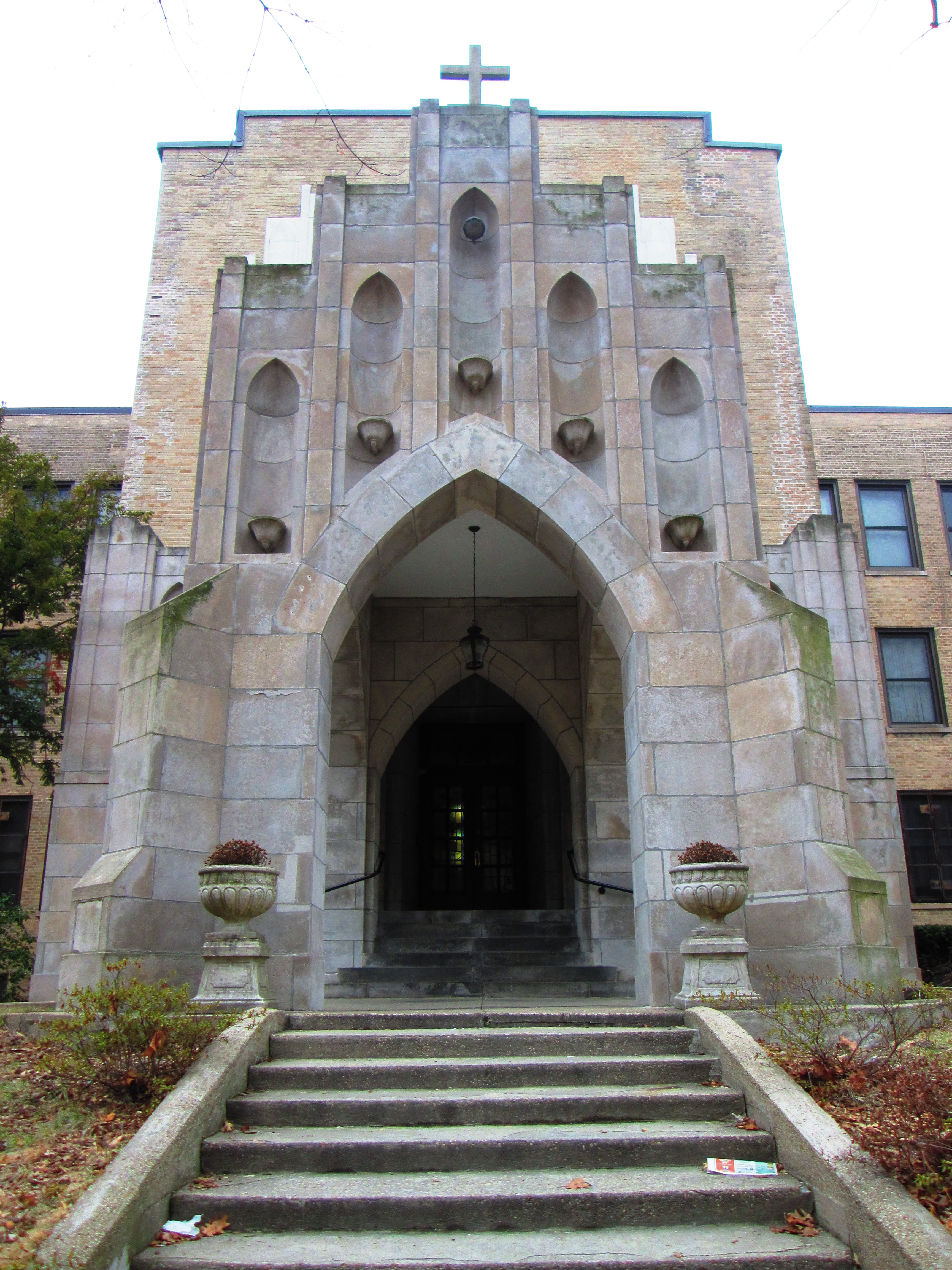 Mother Cabrini High School at 701 Fort Washington Avenue in the Hudson Heights neighborhood of Washington Heights, Manhattan, New York City is a Roman Catholic secondary school for girls founded in 1899 by Frances Xavier Cabrini and sponsored by the Missionary Sisters of the Sacred Heart of Jesus. The current facility was built in 1930. (Sources: School website and NYC GIS map) It 2014, it was announced that the school would close at the end of the school year. "Mother Cabrini High School to Close at End of School Year"